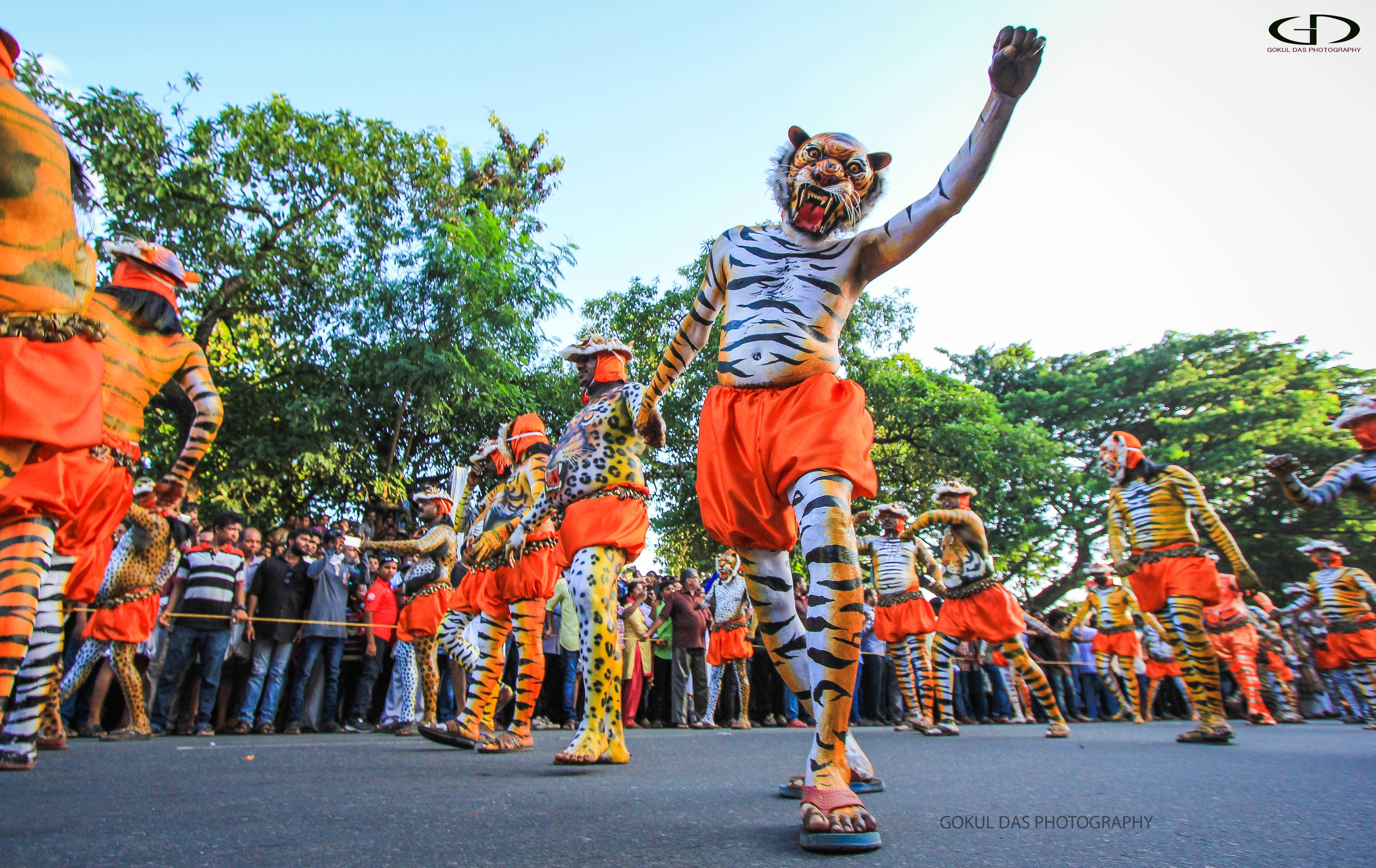 Pulikkali (“Puli” = Leopard / Tiger & “Kali” = Play in Malayalam language) is a colorful recreational folk art from the state of Kerala .It is performed by trained artists to entertain people on the occasion of Onam , an annual harvest festival , celebrated mainly in the Indian state of Kerala. On the fourth day of Onam celebrations (Nalaam Onam), performers painted like tigers and hunters in bright yellow, red, and black dance to the beats of instruments like Udukku and Thakil. Literal meaning of Pulikkali is the ‘play of the tigers’ hence the performance revolve around the theme of tiger hunting. The folk art is mainly practiced in Thrissur district of Kerala. Best place to watch the show is at Thrissur on the fourth day of Onam , where Pulikkali troupes from all over the district assemble to display their skills. The festival attracts thousands of people to theThrissur city. Pulikkali is also performed during various other festive seasons.